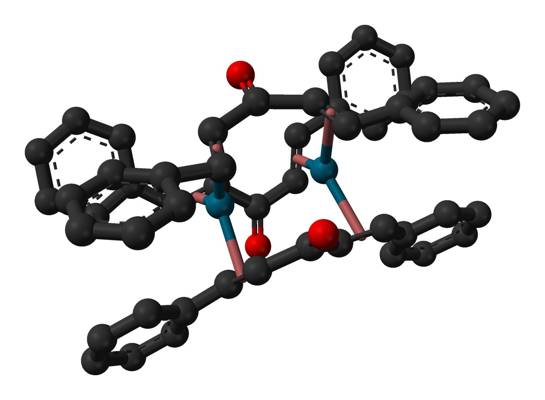 Ball-and-stick model of the tris(dibenzylideneacetone)dipalladium(0) complex. X-ray crystallographic data from Cortlandt G. Pierpont and Margaret C. Mazza (1974). "Crystal and Molecular Structure of Tris(dibenzylideneacetone)dipalladium(0)". Inorg. Chem. 13 (8): 1891-1895.